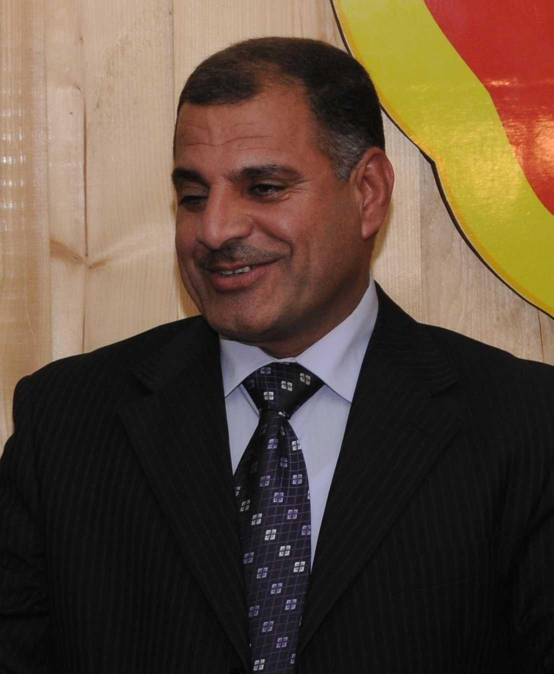 Ahmed Abdullah Abid Khalaf, chairman of the provincial council of Salah Ad Din province gives a gift to Rick Bell, the departing team leader of the Provincial Reconstruction Team during a hail and farewell reception on Contingency Operating Base Speicher, in Tikrit, Iraq, on June 8.